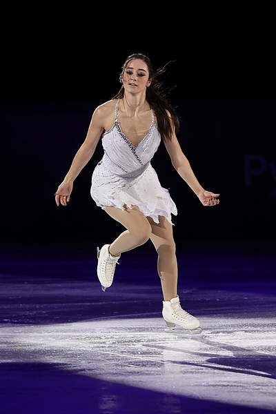 Gala exhibition at the 2018 Winter Olympics